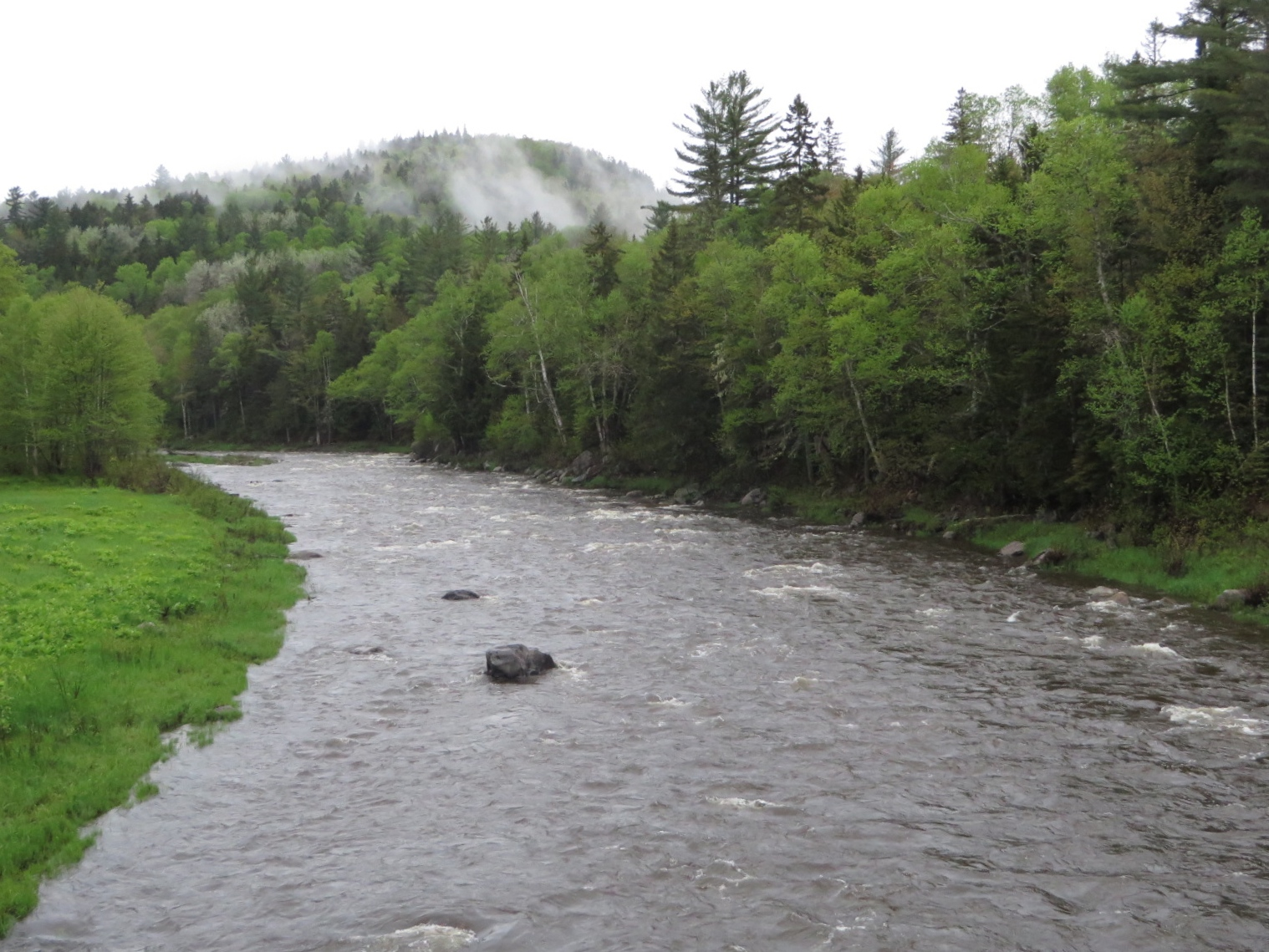 The Dead Diamond River in Second College Grant, May 2014.